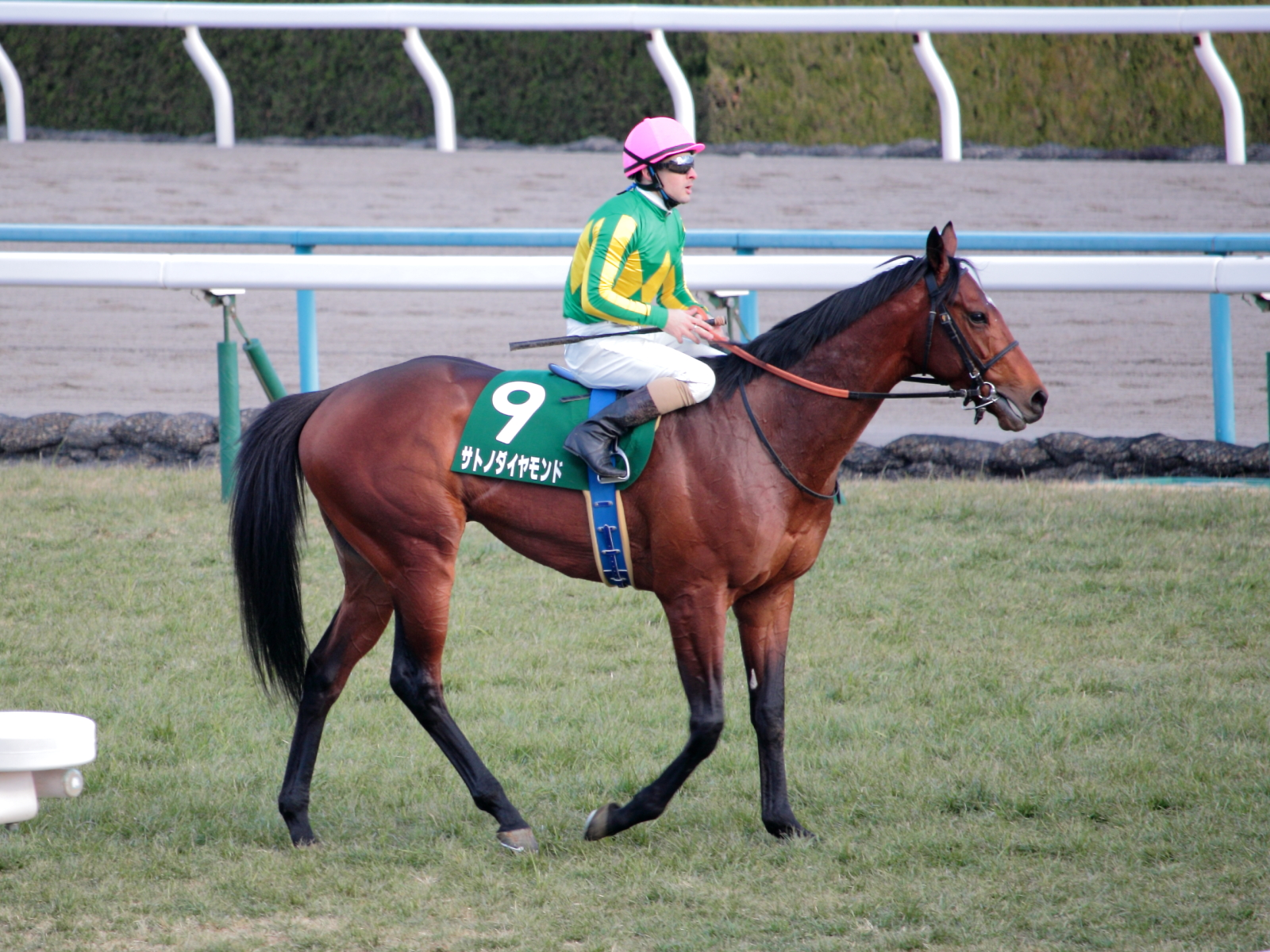 Satono Diamond (Racehorse of Japan).